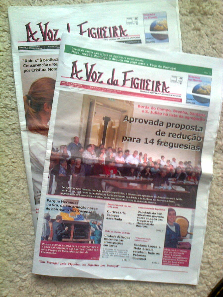 Some regular editions of Voz da Figueira, the weekly newspaper from Figueira da Foz, Portugal